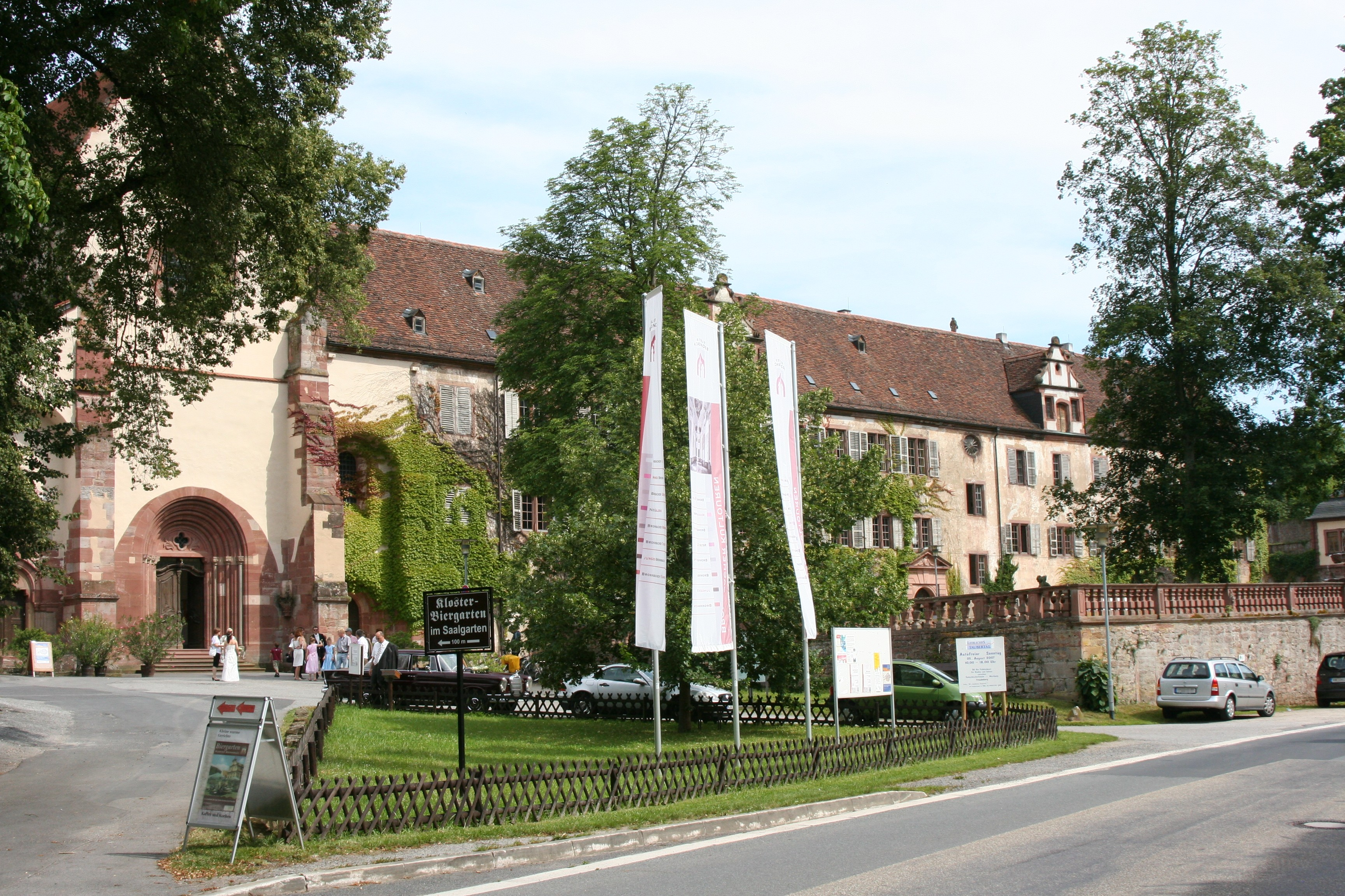 Bronnbach Abbey. Western façade with church and Prälatur